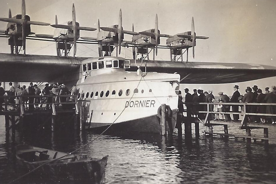 Flying boat Dornier Do X1a, powered by 12 Curtiss V-1570 Conqueror engines, on Müggelsee (Berlin May 1932)